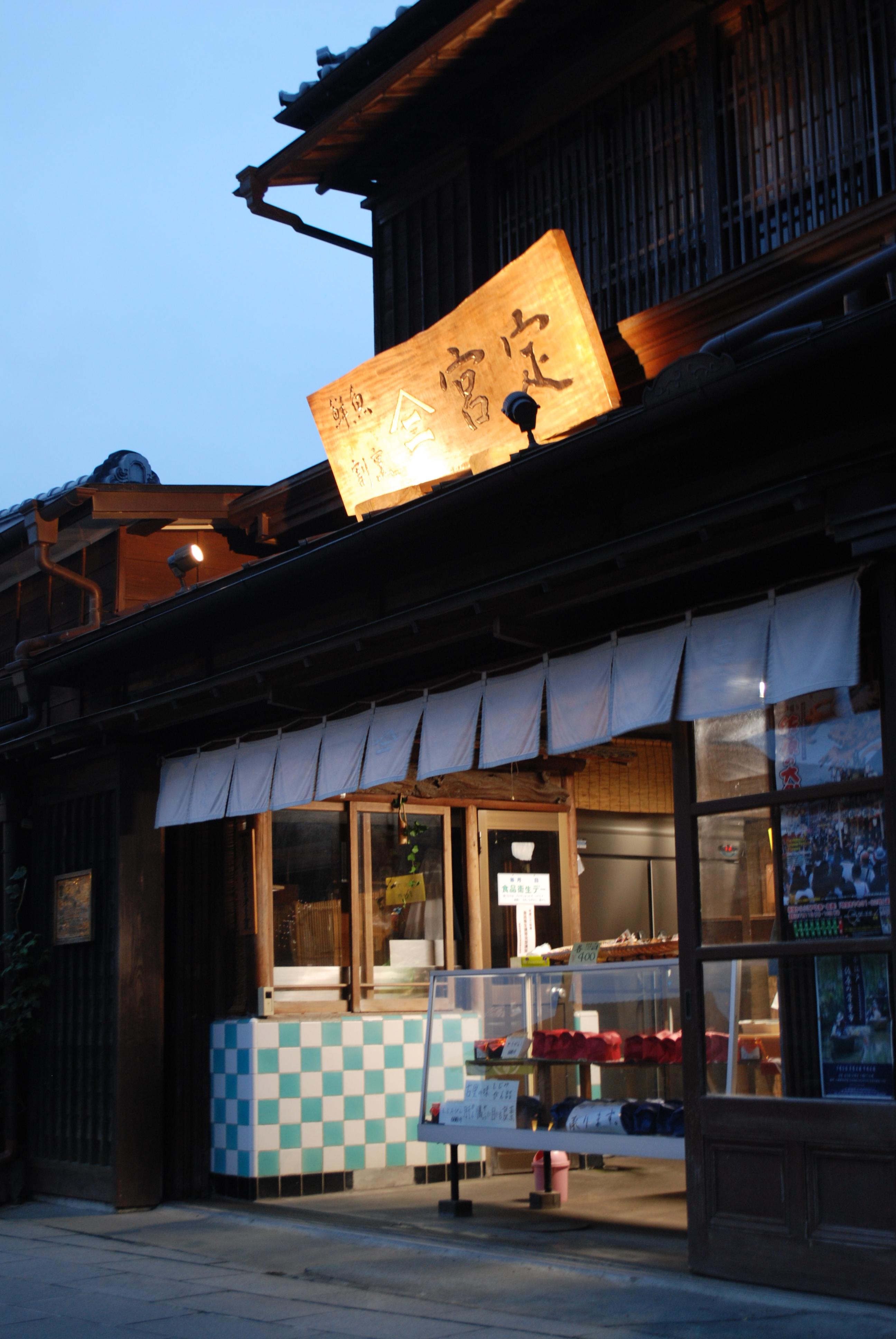 Japanese old store,fish shop,Miyasada,Katori-city,Japan